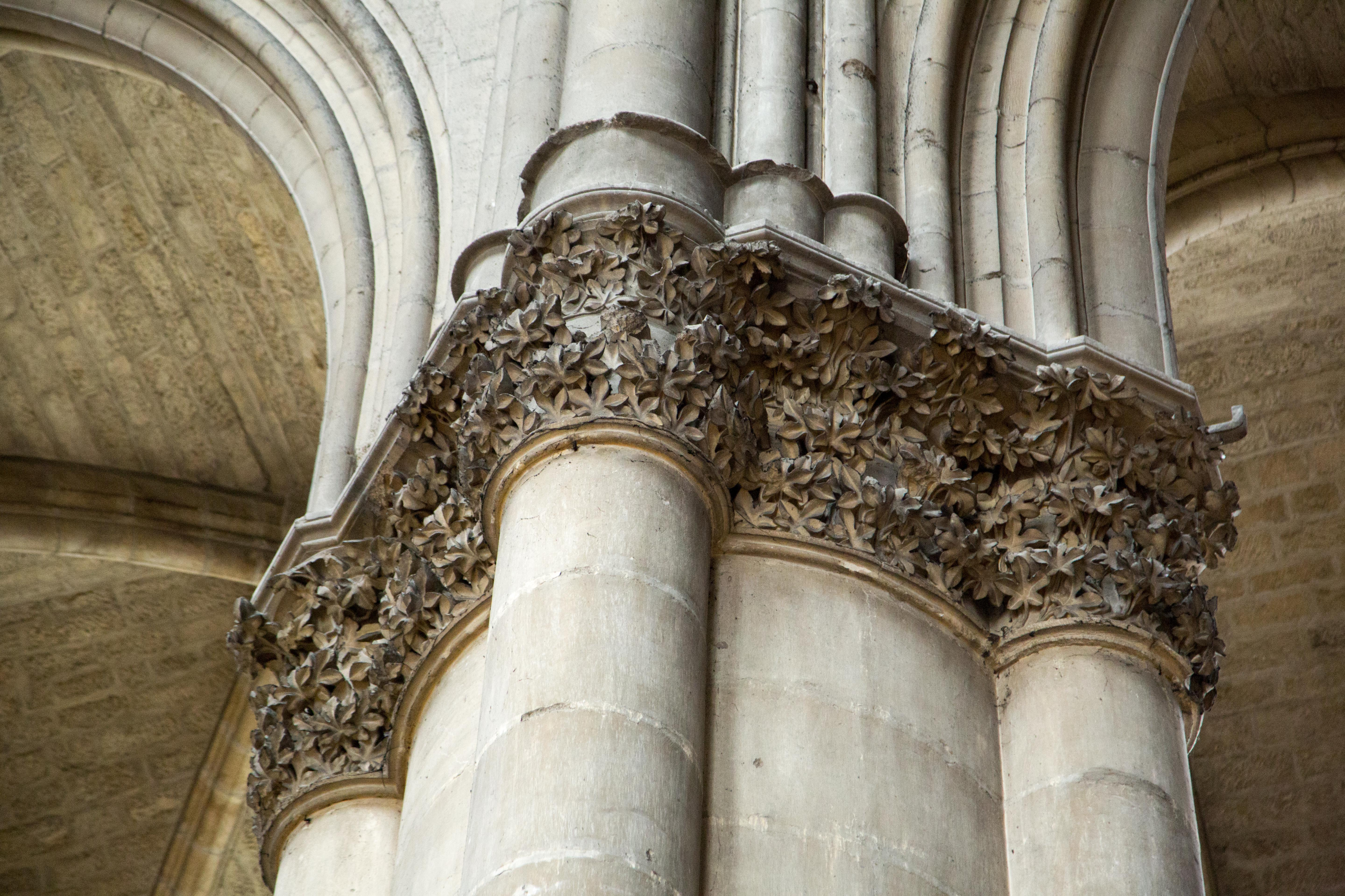 Reims Notre Dame column detail - horse chestnut